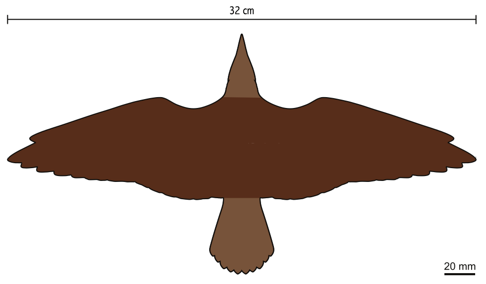 Diagram of the wing and tail profile of Hongshanornis longicresta, based on specimen DNHM D2945/6. Chiappe LM, Zhao B, O’Connor JK, Chunling G, Wang X et al. (2014) A new specimen of the Early Cretaceous bird Hongshanornis longicresta: insights into the aerodynamics and diet of a basal ornithuromorph. PeerJ 2:e234